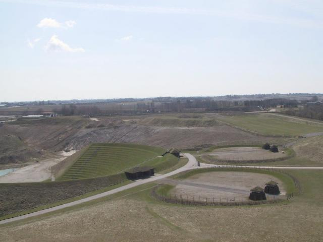 Hedeland is a former large gravel pit, now recreational area; image shows the amphitheatre (higher resolution version will be contributed later). It's actually a theatre, but the company calls it an amphitheatre [1] for unknown reasons.